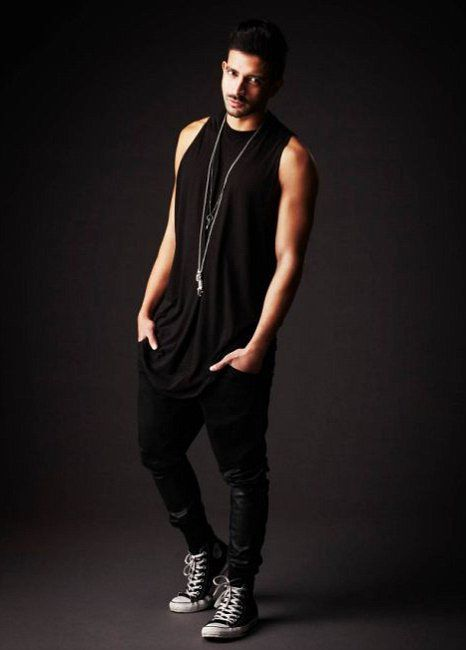 Nik Thakkar - NEO_10Y photo